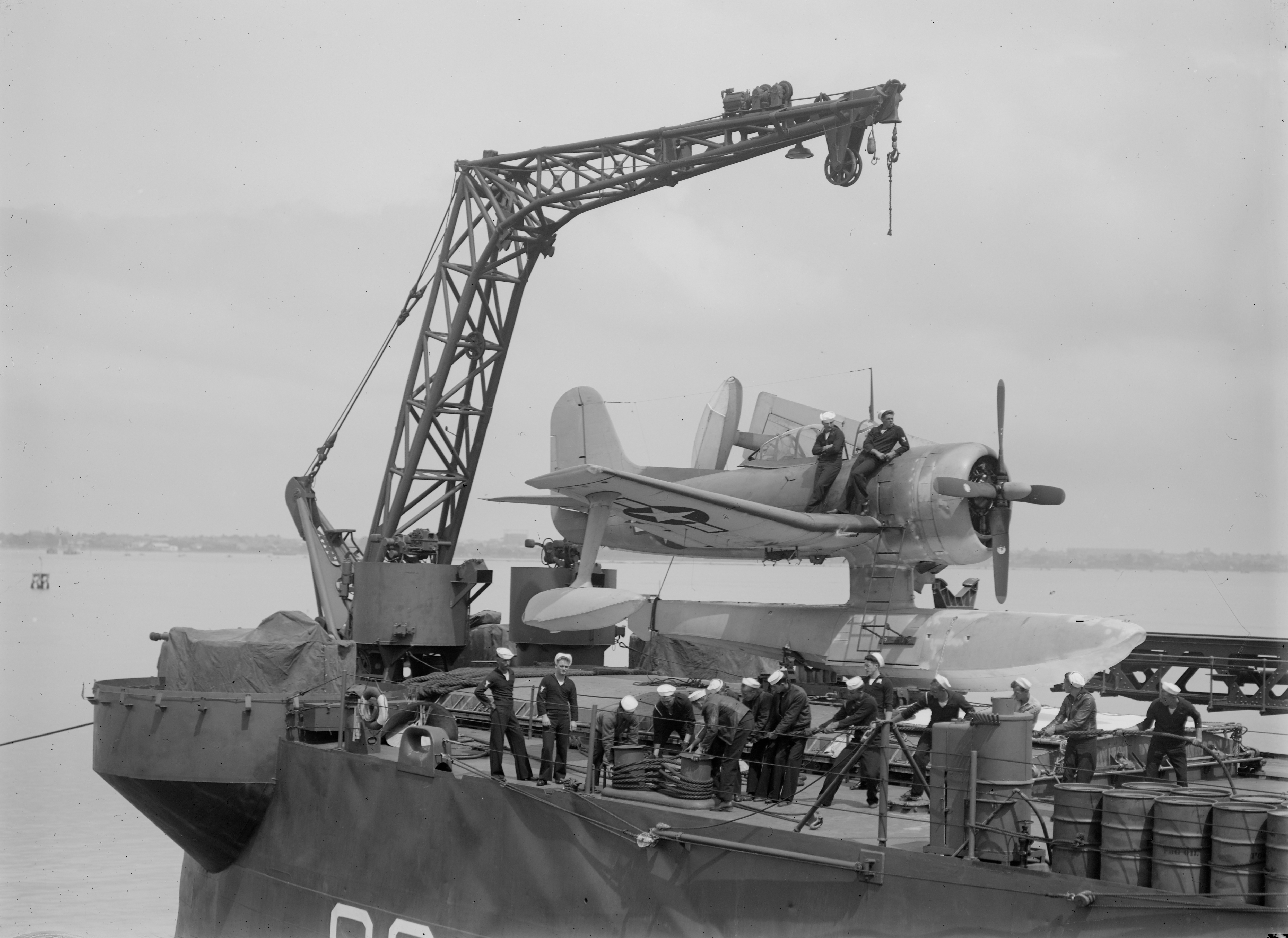 Curtiss SC Seahawk floatplane on catapult aboard USS Birmingham. Notice the left wing folded, i.e. to fit in a USS Indianapolis size hangar.